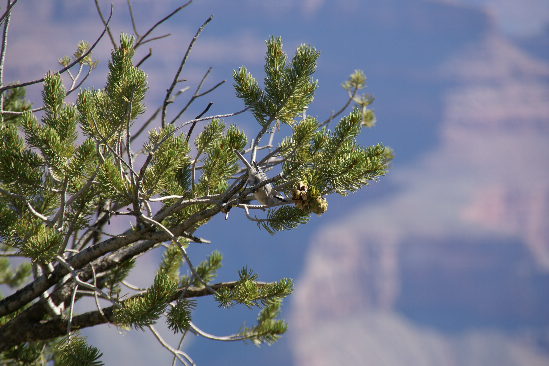 Mountain Chickadee Poecile gambeli on Pinus edulis at Mather Point, Grand Canyon, Arizona, USA